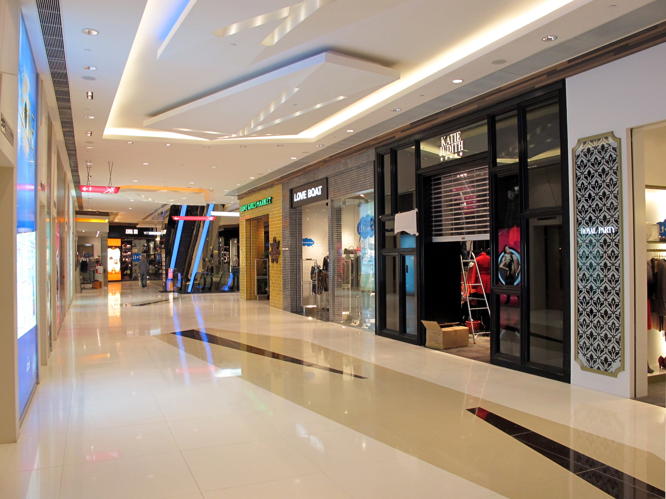 The ONE Level 2 it brands shops